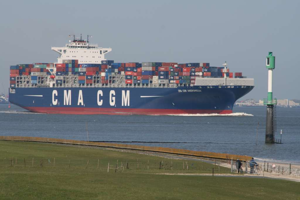 CMA_CGM_Andromeda incoming at Glameyer Stack (Elbe)